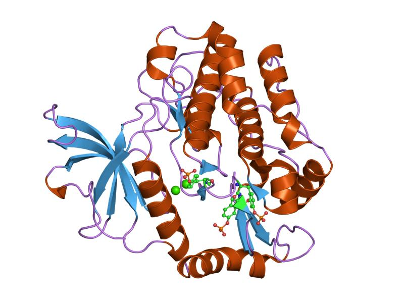 Cartoon representation of the molecular structure of protein registered with 2auh code.